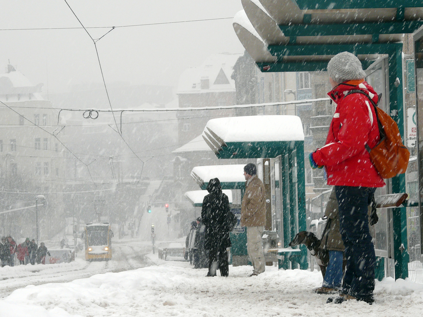 Snow in Budapest, Hungary